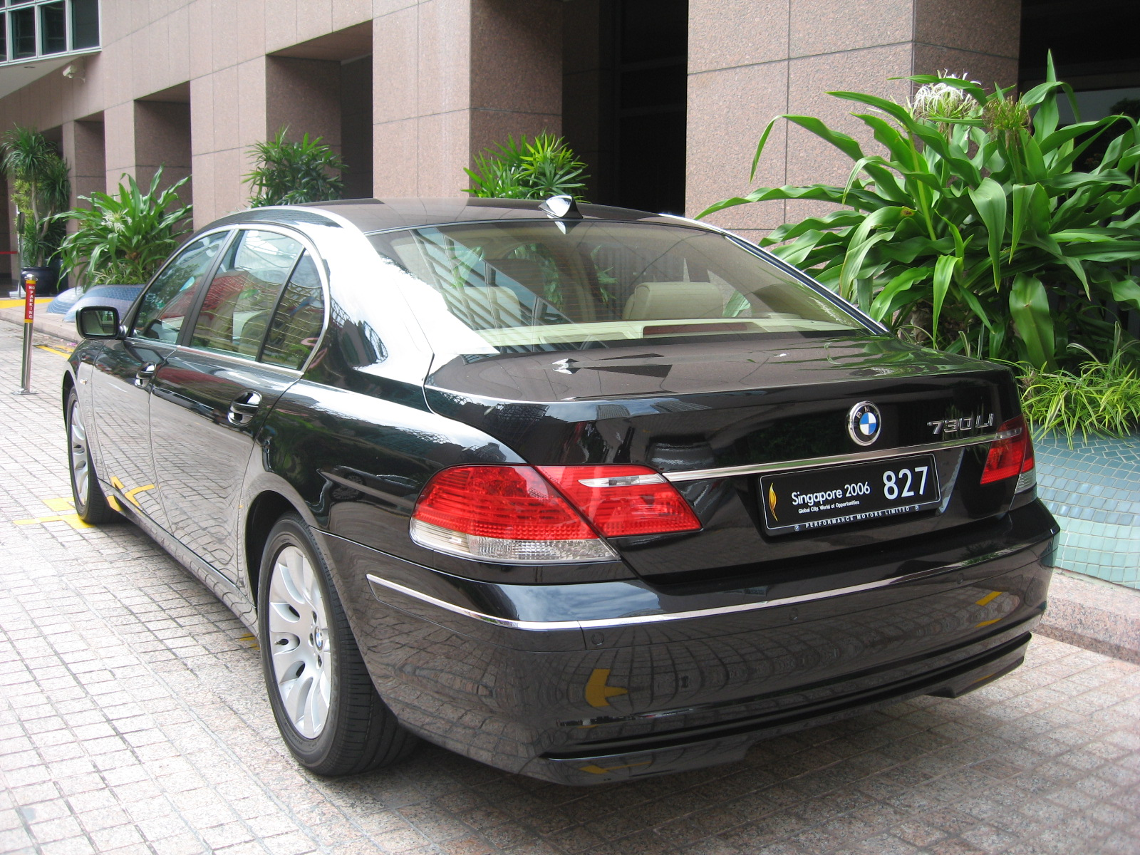 BMW 7 series (Official car for Singapore 2006).